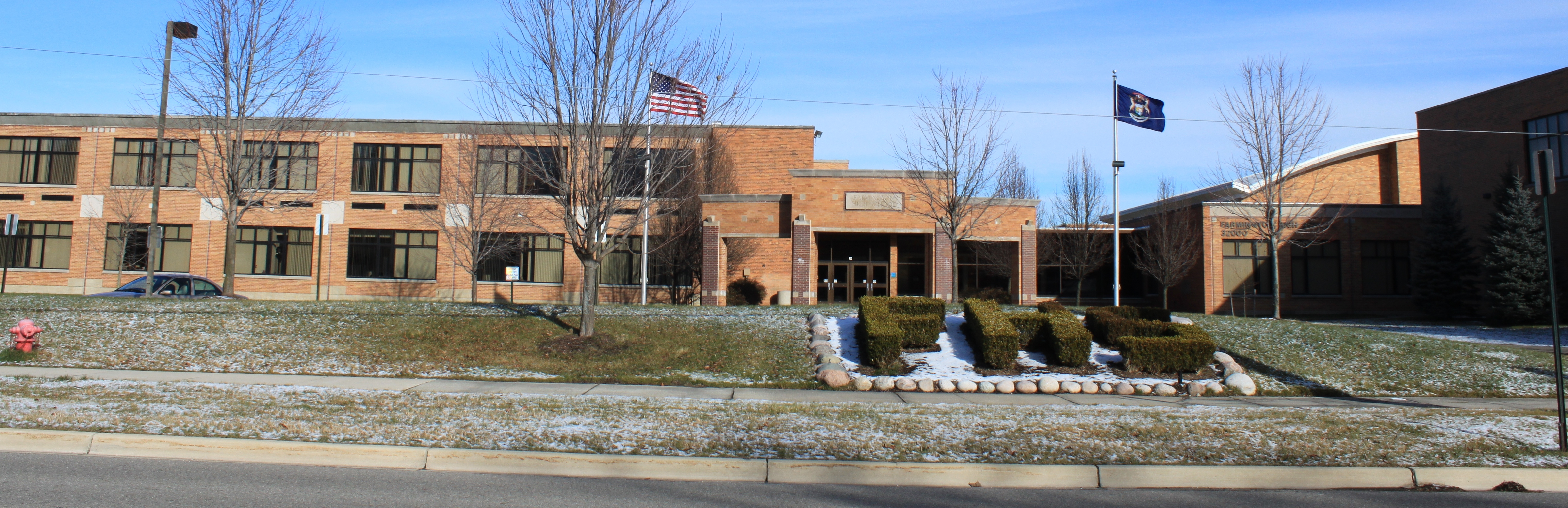 Farmington High School, 32000 Shiawassee Road, Farmington, Michigan.